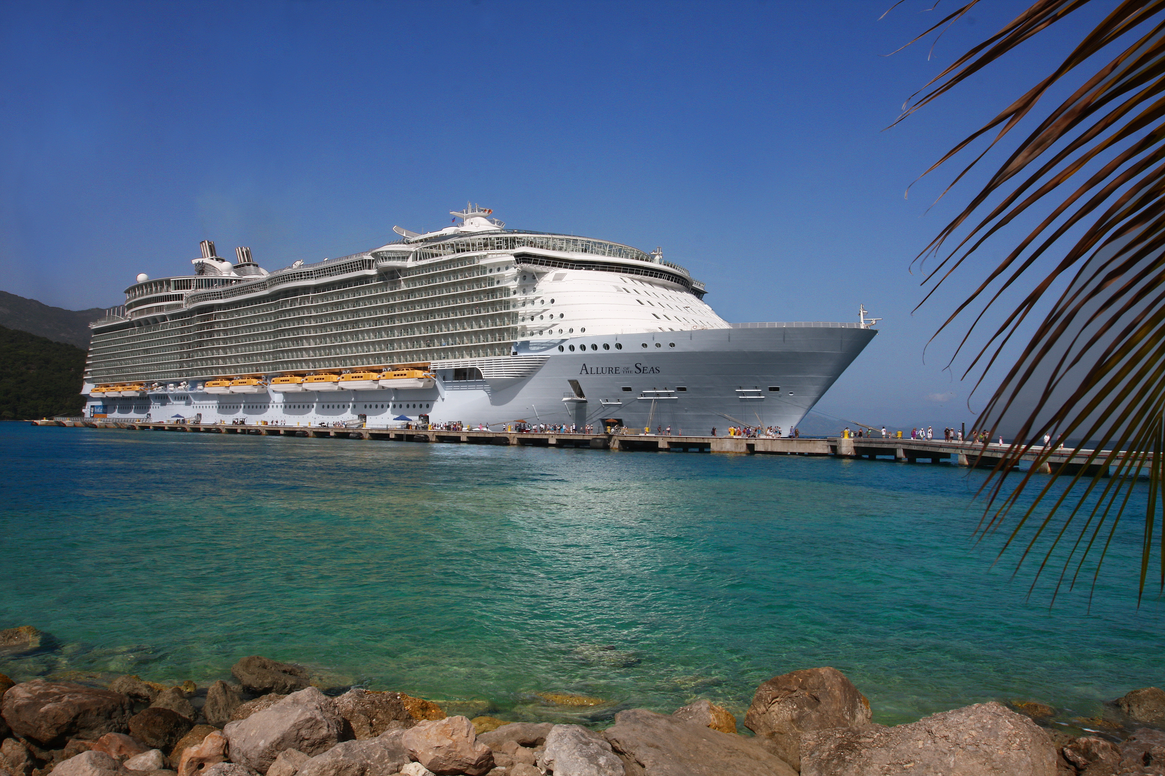 Allure of the Seas 2012 docking at Labadee, Haiti